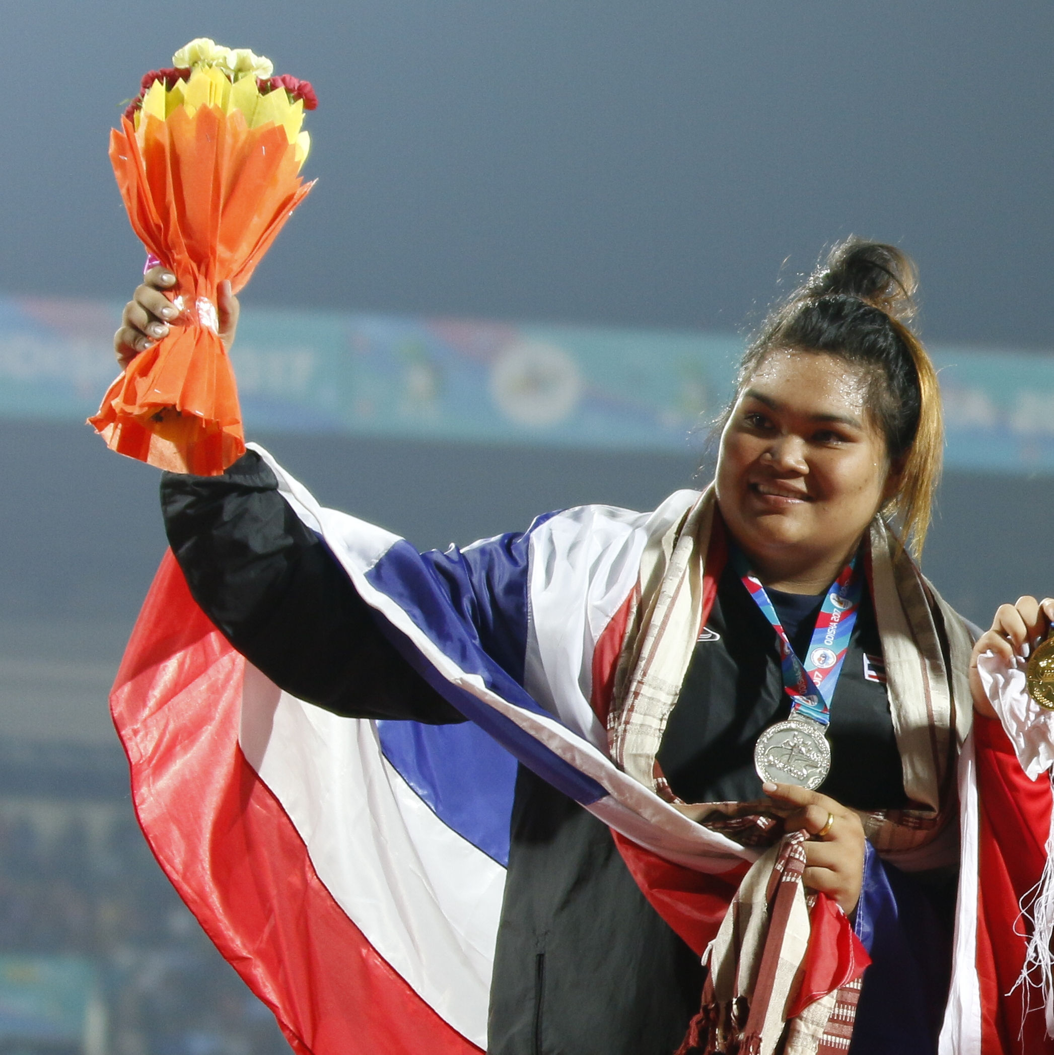 2017 Asian Athletics Championships at the Kalinga Stadium in Bhubaneswar, India